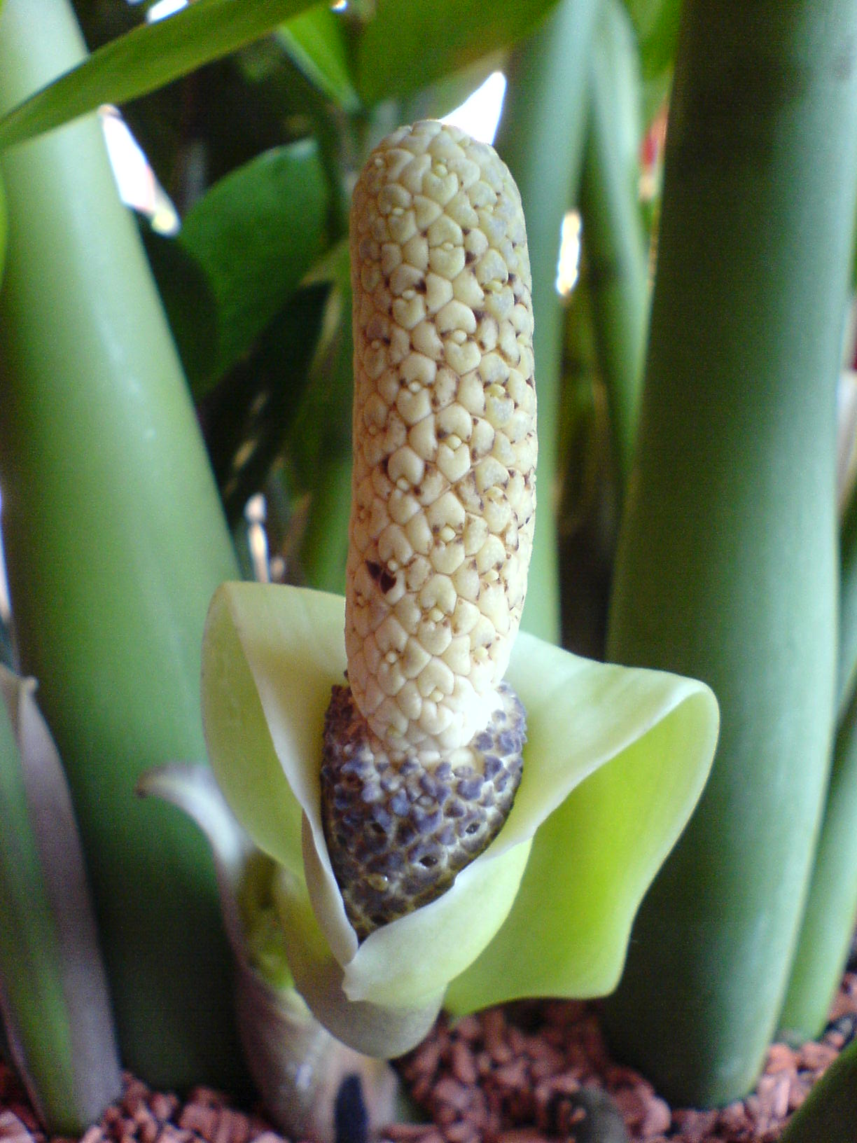 blossom of a zamioculcas zamiifolia